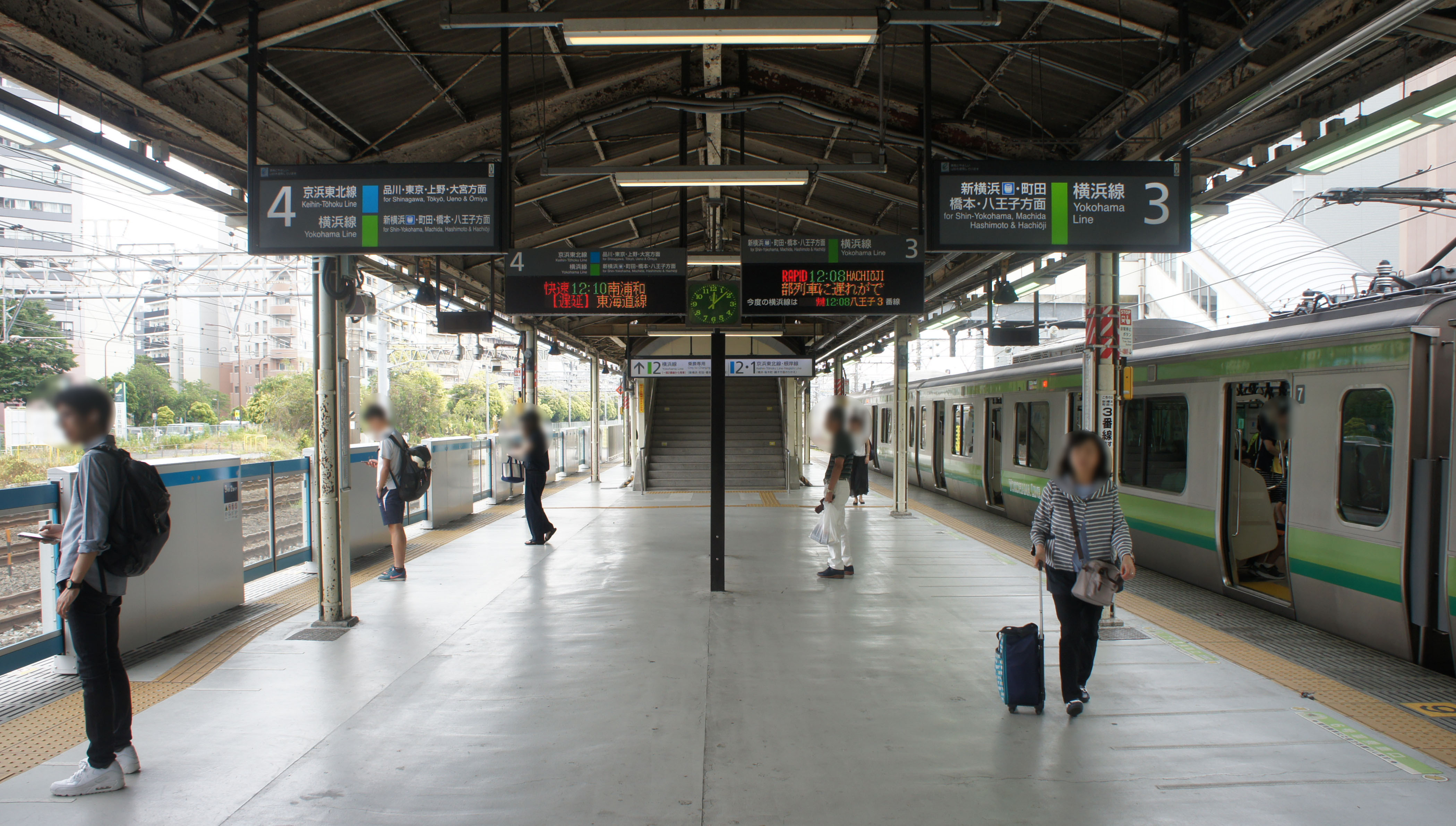 Platform 3・4 of JR Higashi-Kanagawa Station